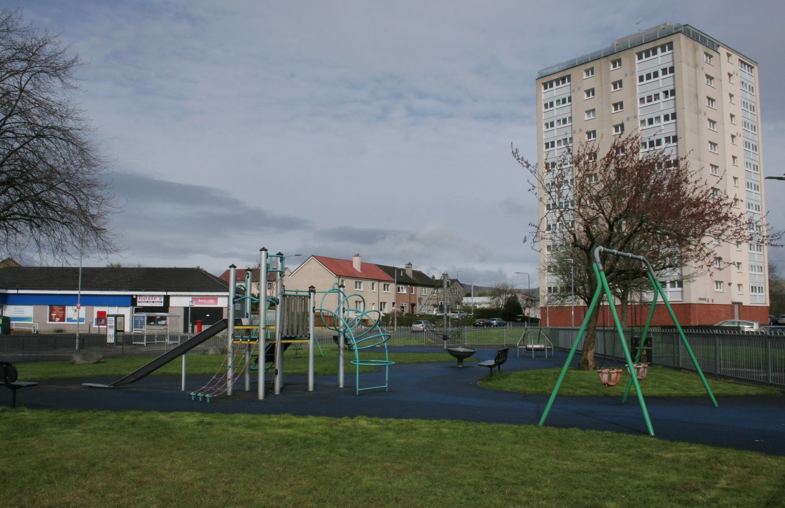 Play park off Kirkoswald Drive